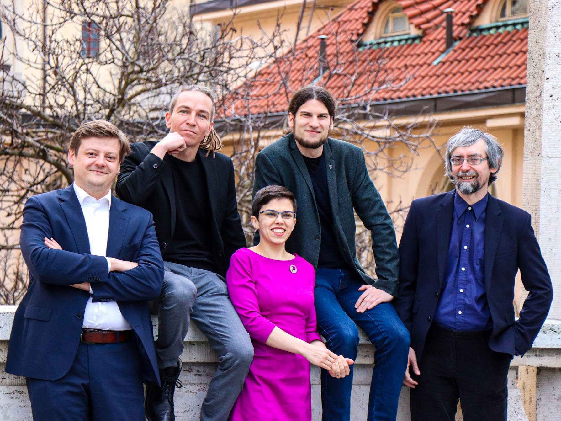 Republic Committee members of the Czech Pirate Party on 17 February 2020 from left: Radek Holomčík, Ivan Bartoš, Olga Richterová, Vojtěch Pikal, Martin Kučera